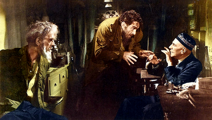 Colored lobby card for House of Frankenstein (Universal, 1944), featuring Boris Karloff, J. Carrol Naish and George Zucco. Image is assumed to be in the public domain as no copyright is in evidence.